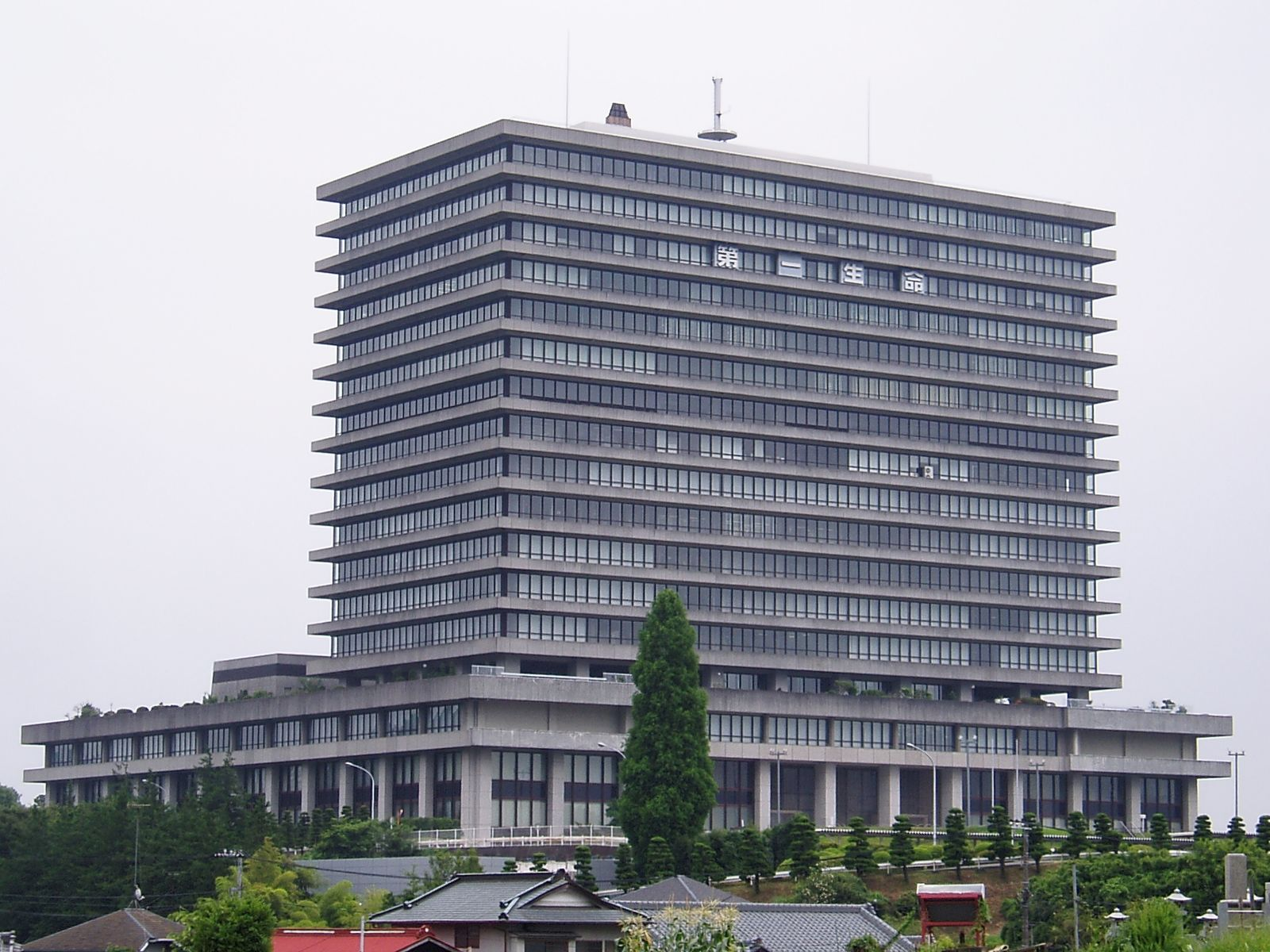 Ōi Head Office of Dai-ichi Life Insurance Company.